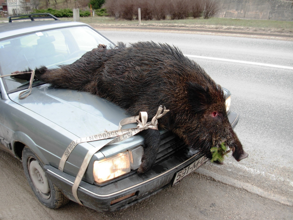 Wild boar hunting in the vicinity of Mrkonjic Grad, Bosnia and Herzegovina, 2011-01-08